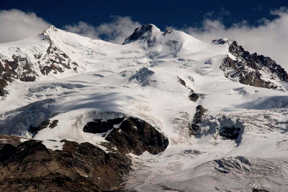 Monte Rosa, Pennine Alps